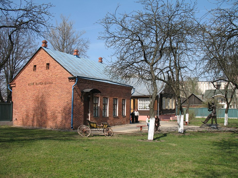 Back yard of the Mark Chagall home museum, in Vitebsk, Belarus.